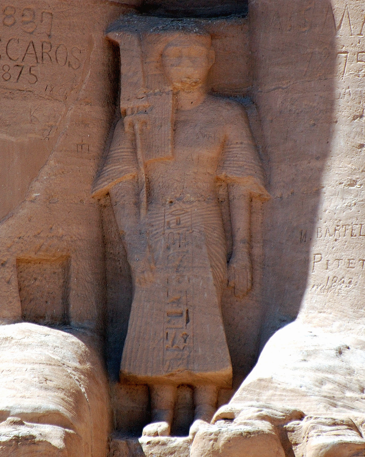 Statue of Prince Amunherkhepshef between Ramses's legs at the temple of Ramses II.